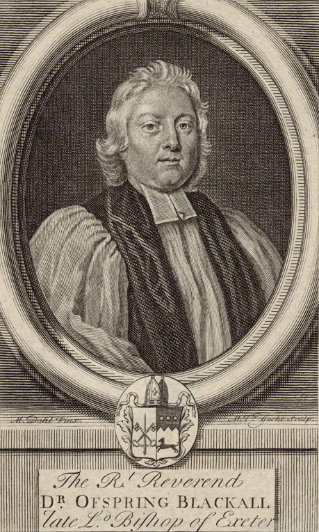 Portrait of Ofspring Blackall (1655-1716)